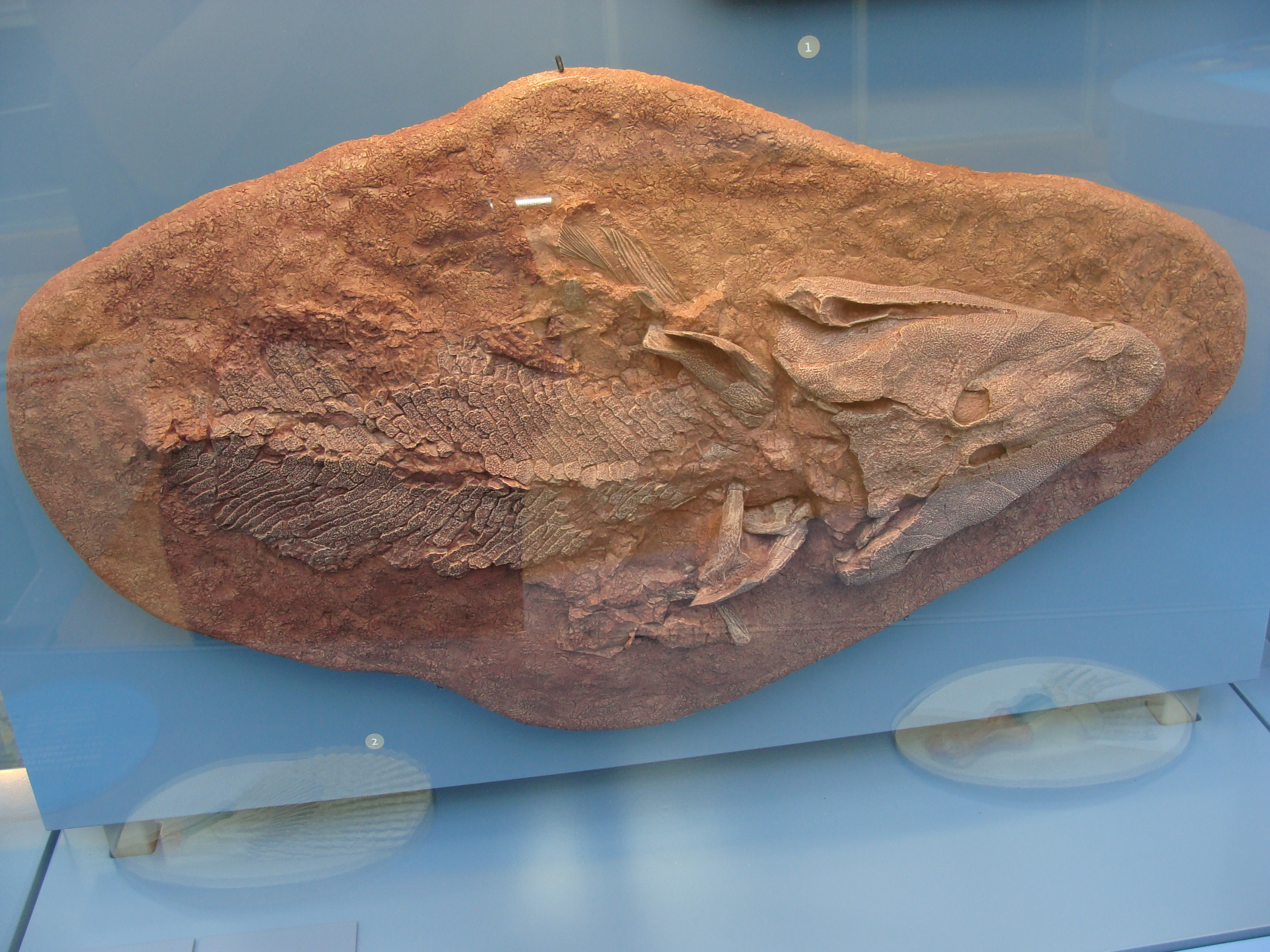 Tiktaalik roseae in the Royal Belgian Institute of Natural Sciences .